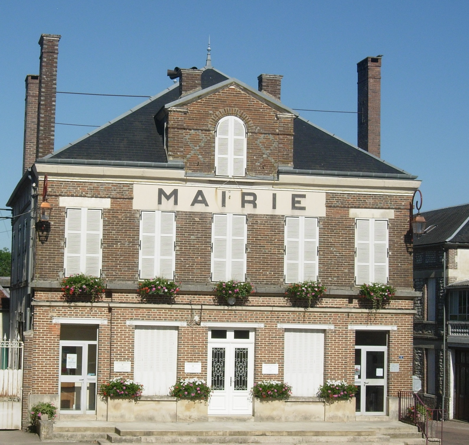 mairie d'Auxon Aube